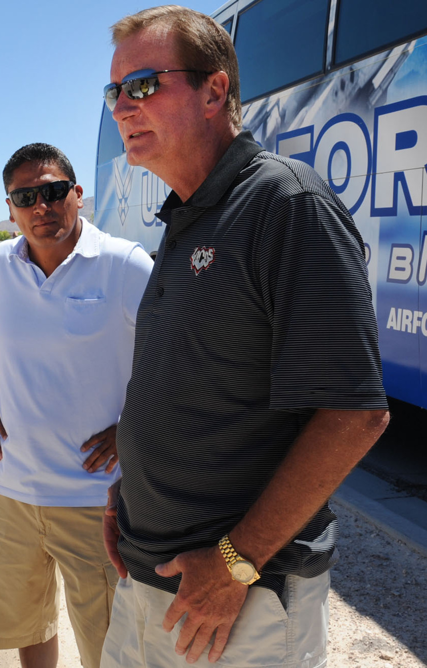 U.S. Air Force Col. Carol C. Yannarella, 99th Air Base Wing vice commander, greets Jim Fassel, coach of the Las Vegas Locos football team, and Ruben Herrera, the Executive VP, Buisness Development, Aug. 5, 2011 at Nellis Air Force Base Nev. The Locos football players, cheerleaders, and coaches toured Nellis AFB and spent time at the Nellis Youth Center teaching the children the fundamentals of football, cheerleading, and sportsmanship. (U.S. Air Force photo by Staff Sgt. Taylor Worley/ Released)